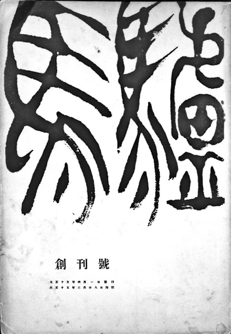 Cover of the first issue of Roba by Tatsuo Hori and others